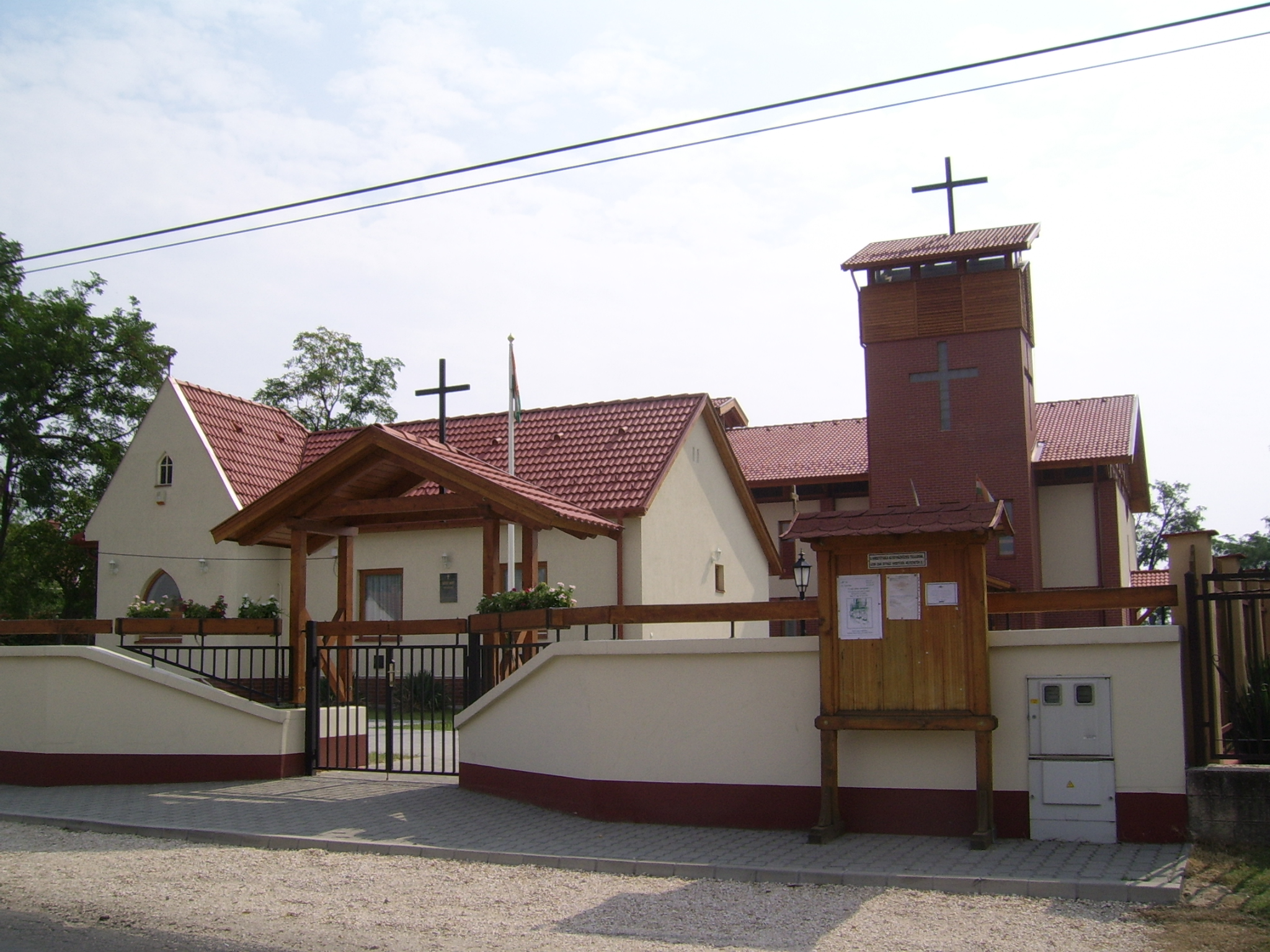 Roman catholic church in Táborfalva, Hungary